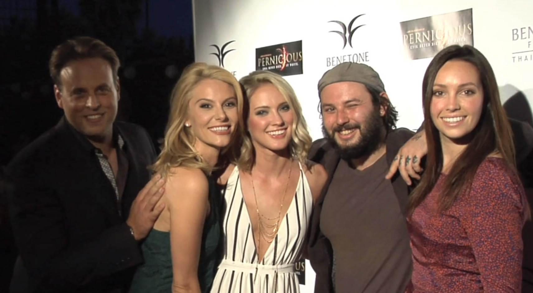 People from the 2015 film Pernicious. Left to right: Producer Daemon Hillin - Benetone Hillin Entertainment, actress Jackie Moore, actress Ciara Hanna, director James Cullen Bressack, actress Emily R. O'Brien.